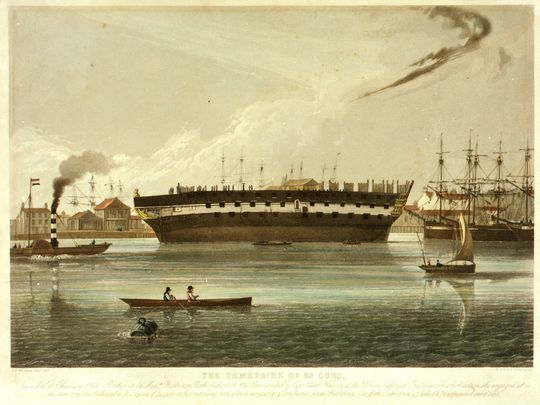 The Temeraire of 98 guns. Launched at Chatham 1798. Broken up by Messrs Beatson at Rotherhithe 1838. Was commanded by Capt Elias Harvey at the glorious Victory of Trafalgar in which action she engaged at the same time the Redoutable & Fougueux of 74 guns each, compelling both, after a sanguinary conflict to strike their colours. Loss of the Temeraire 47 killed & 76 wounded out of 660